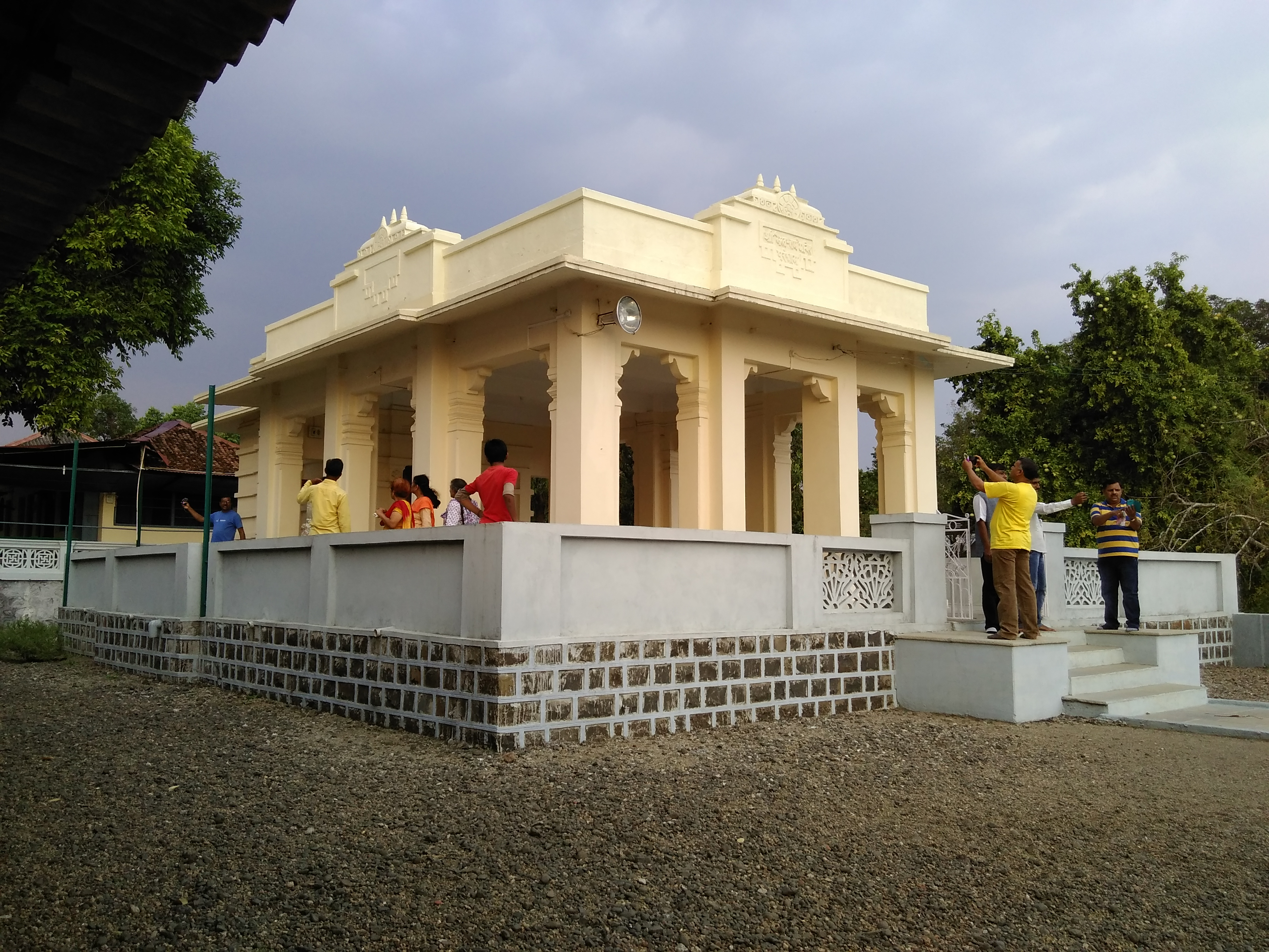 Shree 'Bharat Ram' Mandir, Paunar Ashram